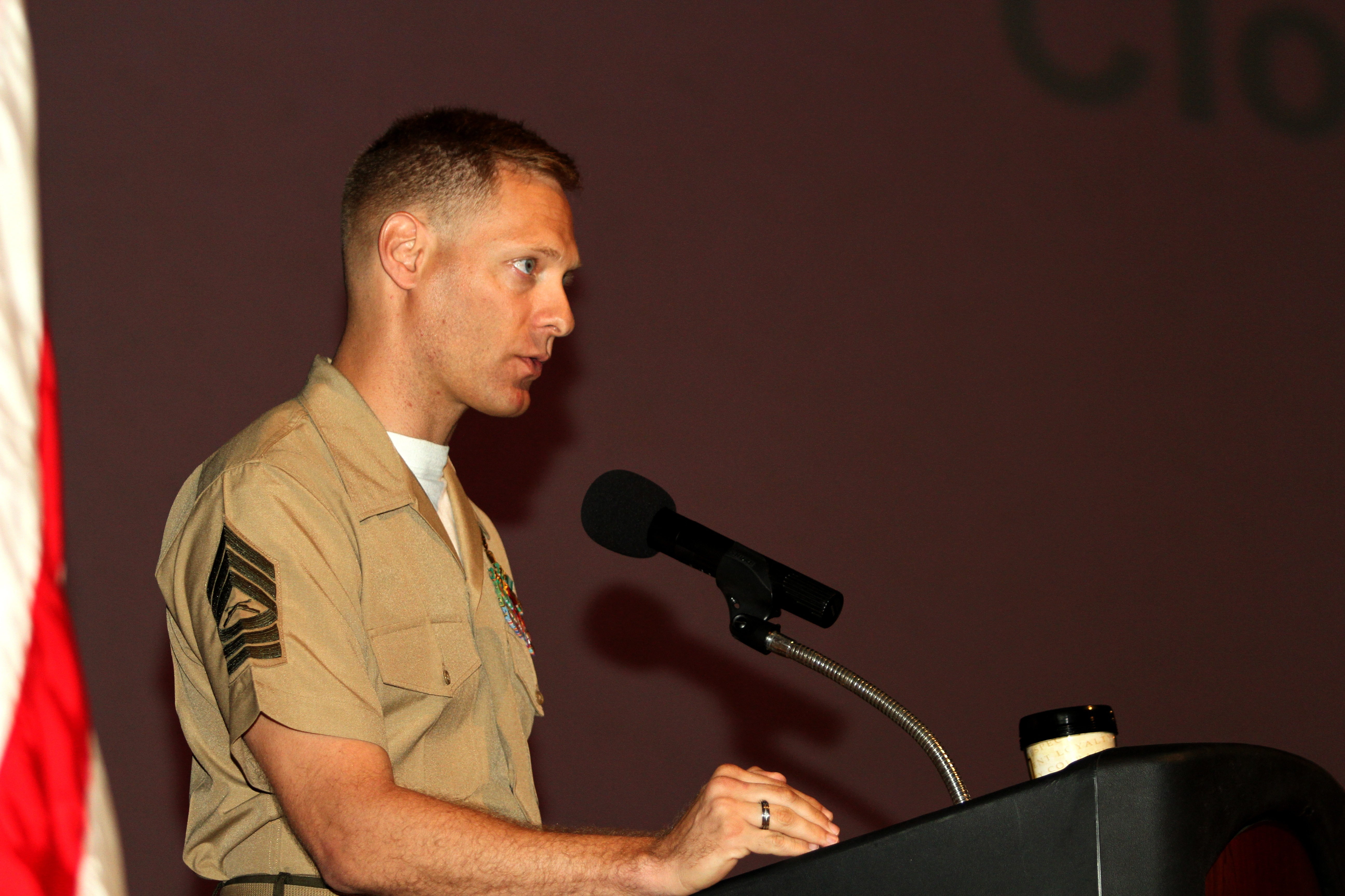 Master Sgt. Brad Colbert, the inspiration for the HBO special “Generation Kill,” speaks to Marines and sailors during the Heroes and Healthy Families Leadership Awareness Conference at the Bob Hope Theatre aboard Marine Corps Air Station Miramar, Calif.